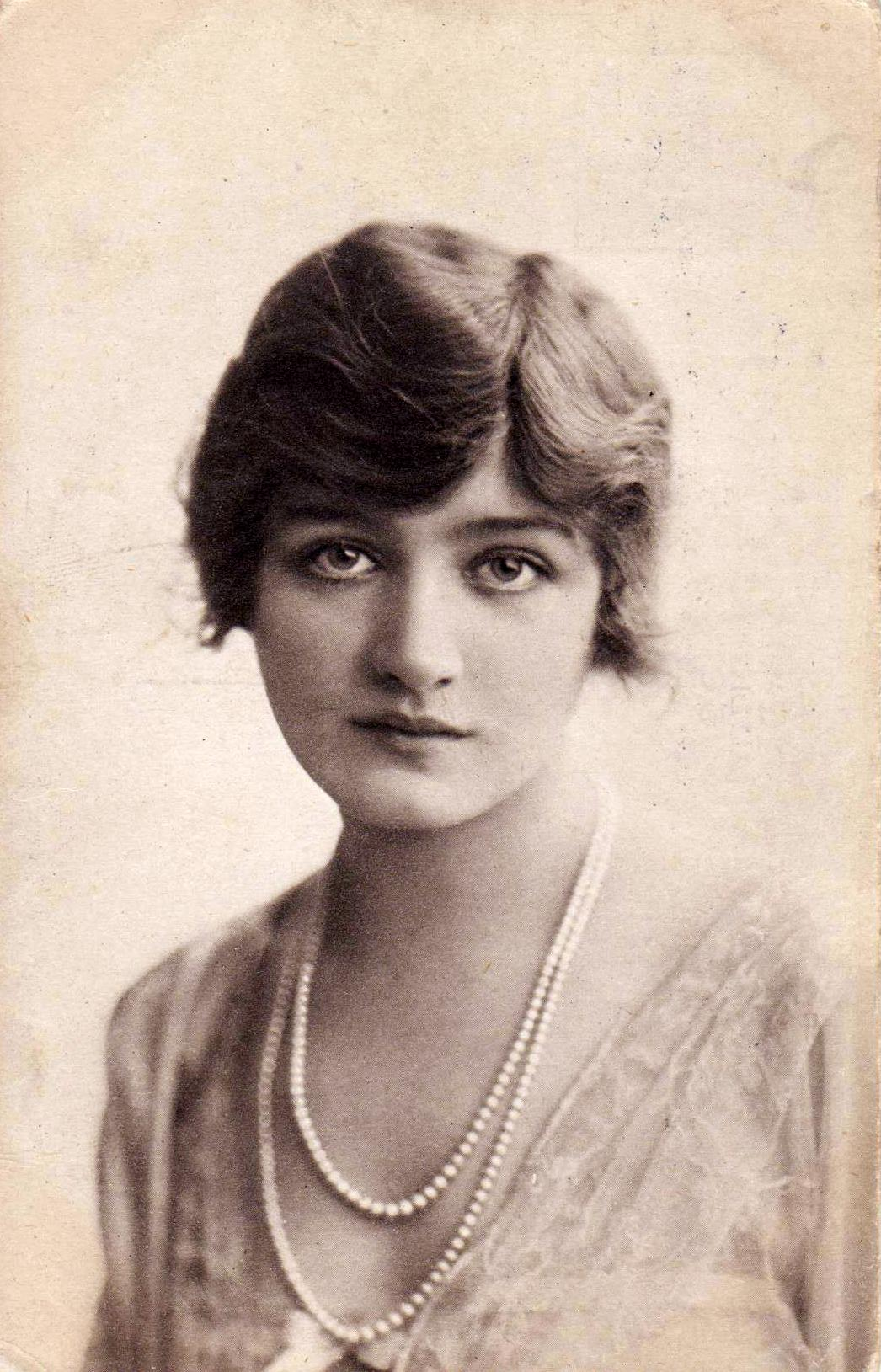 Woman with a pearl necklace. Postcard from 1917. Publisher: C. W. Faulkner & Co. London.